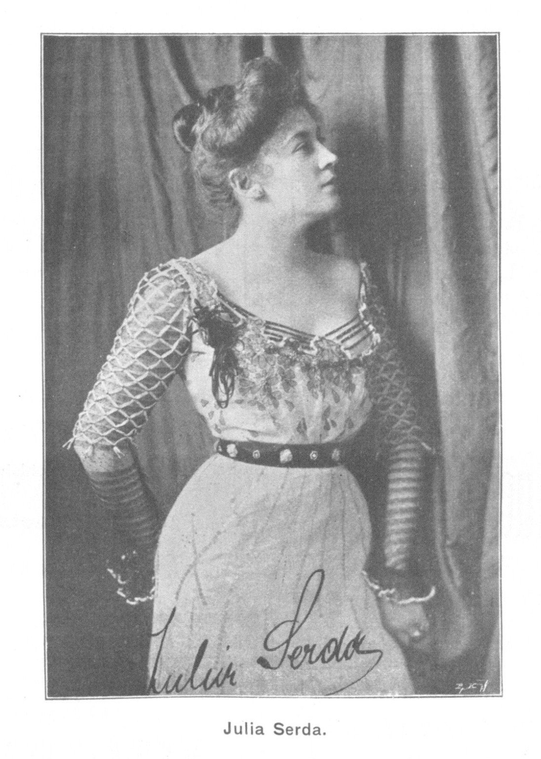 Signed photograph of Julia Serda (1875-1965), Austrian actress.